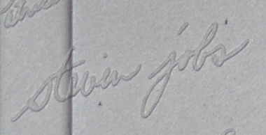 Signature of Steven Jobs